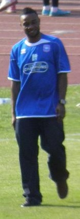 Photograph of Kazenga LuaLua